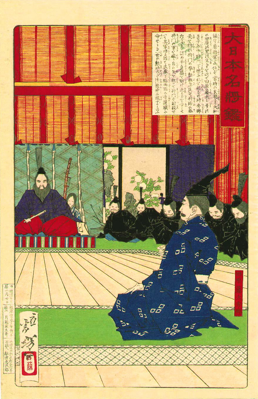 Tawara Hidesato - "Dai Nippon Meisho Kagami" (Mirror of the Famous Generals of Japan), by Yoshitoshi Tsukioka (Taiso) (1839-1892). Depicted is Tawara no Toda Hidesato. When Hidesato met Taira no Masakado, Masakado was very rude and Hidesato decided to confront Masakado.